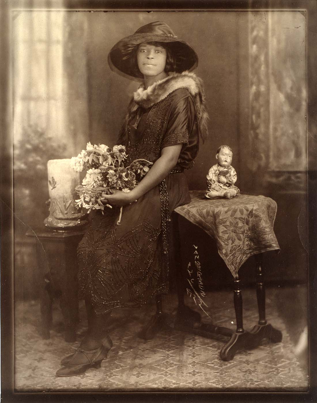 The sitter in the photographic portrait, "Evening Attire," by James Van Der Zee is dressed in a beaded evening gown, an elegant, full hat, and a fox tail wrap; she holds a spray of flowers. Her stance, coupled with the backdrop, the brocade table cover, and a decorative figurine, evokes formal Victorian home interiors seen in Edwardian portraiture and nineteenth-century cartes de visite. See the official institutional record for this photograph.